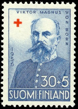 Postage stamp depicting the Finnish statesman Viktor Magnus von Born